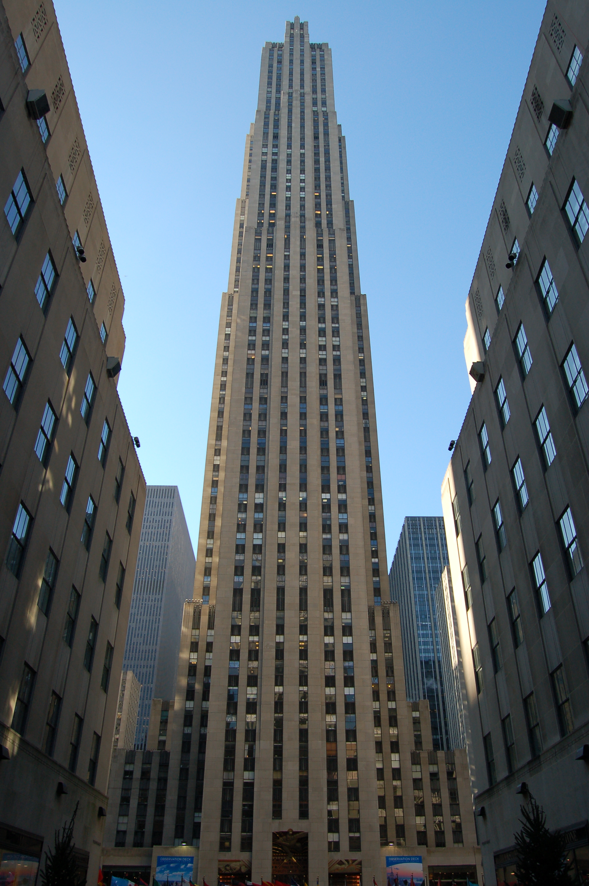 GE Building (30 Rock)